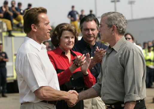 President George W. Bush shakes hands with California Governor Arnold Schwarzenegger as he talks with the media after touring the Rancho Bernardo neighborhood Thursday, Oct. 25, 2007, with Senator Dianne Feinstein, D-Calif., and FEMA Director David Paulison. Said the President: "To the extent that people need help from the federal government, we will help... My job is to make sure that FEMA and the Defense Department and the Interior Department and Ag Department respond in a way that helps people get the job done."